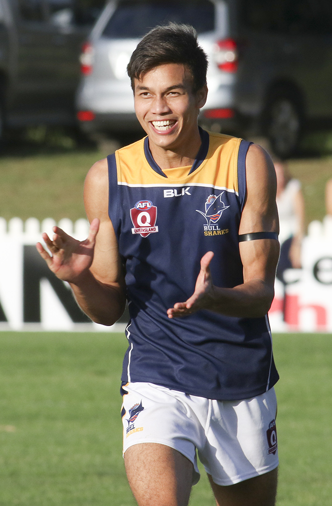 Australian rules footballer